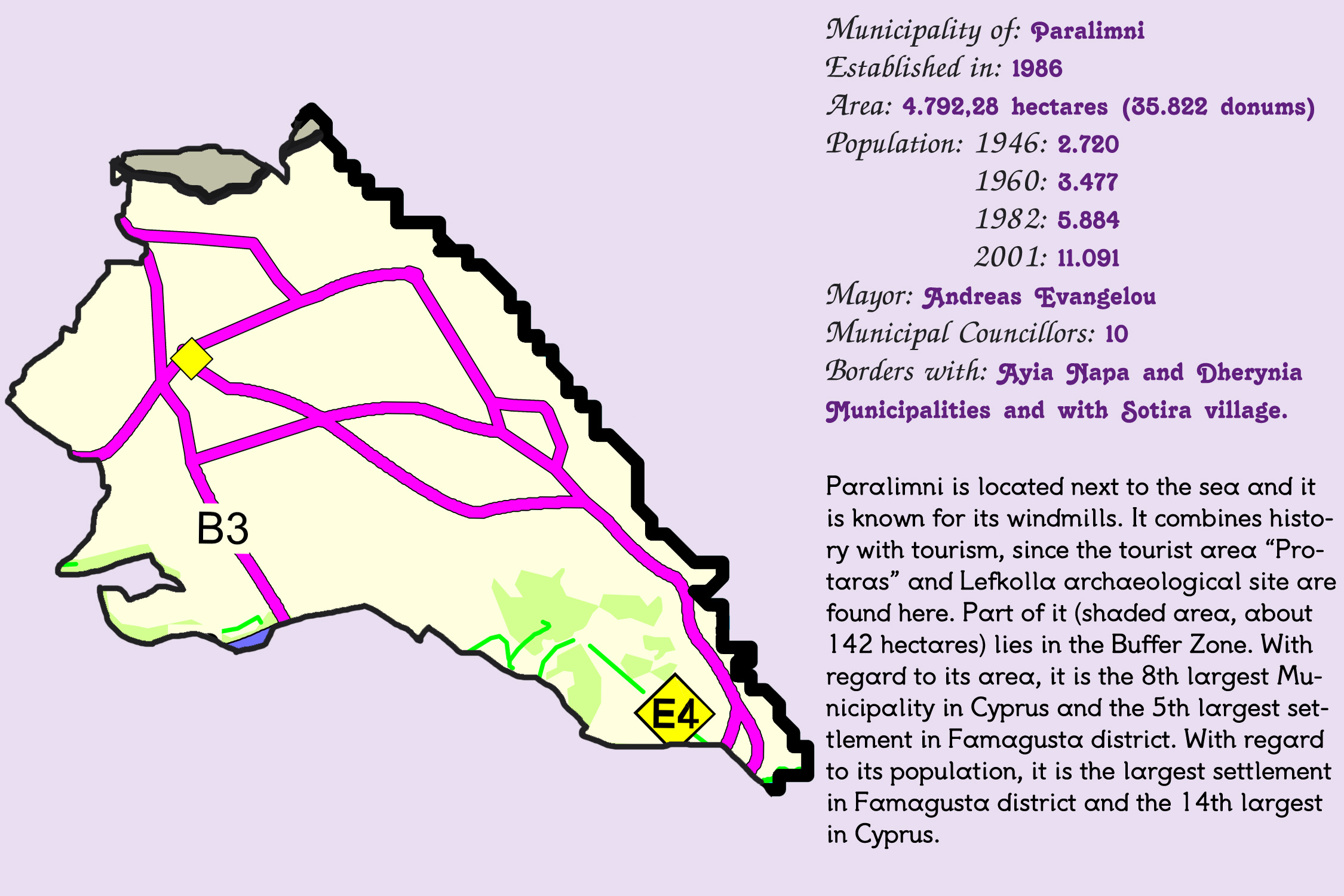 Concise presentation of Paralimni